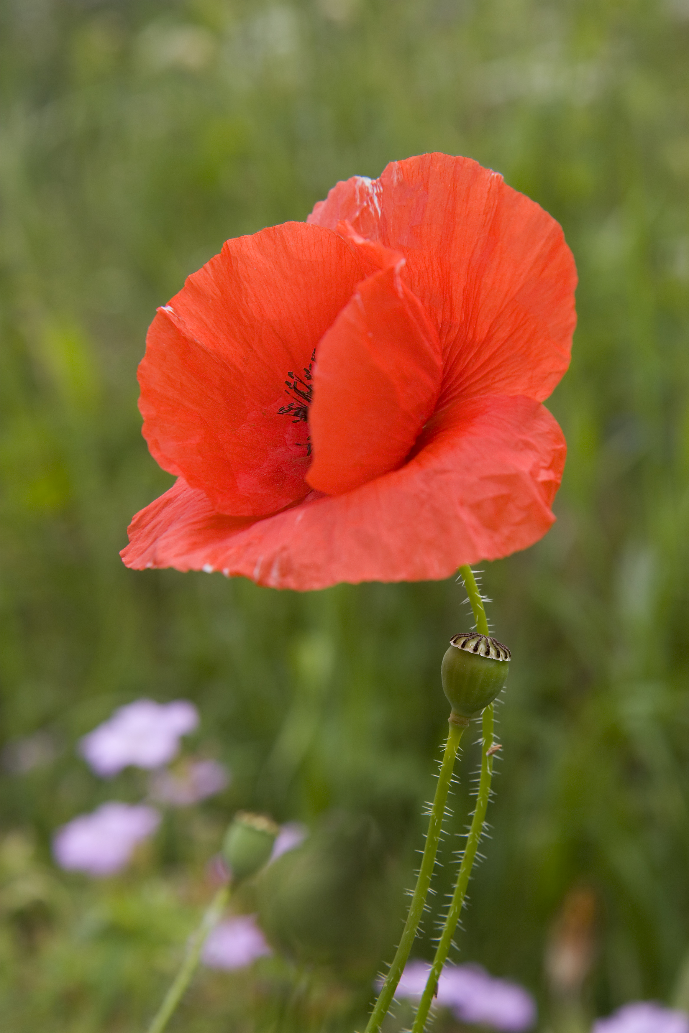 Field poppy (Papaver rhoeas) in meadow